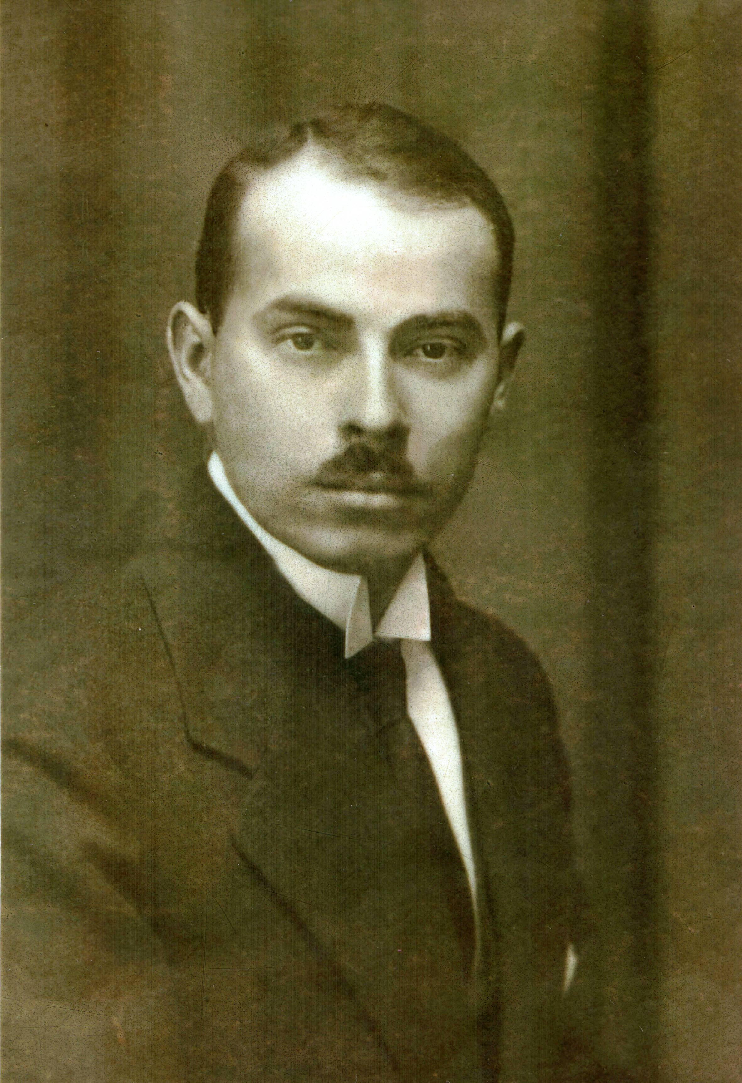 Mieczyslaw Zdzienicki